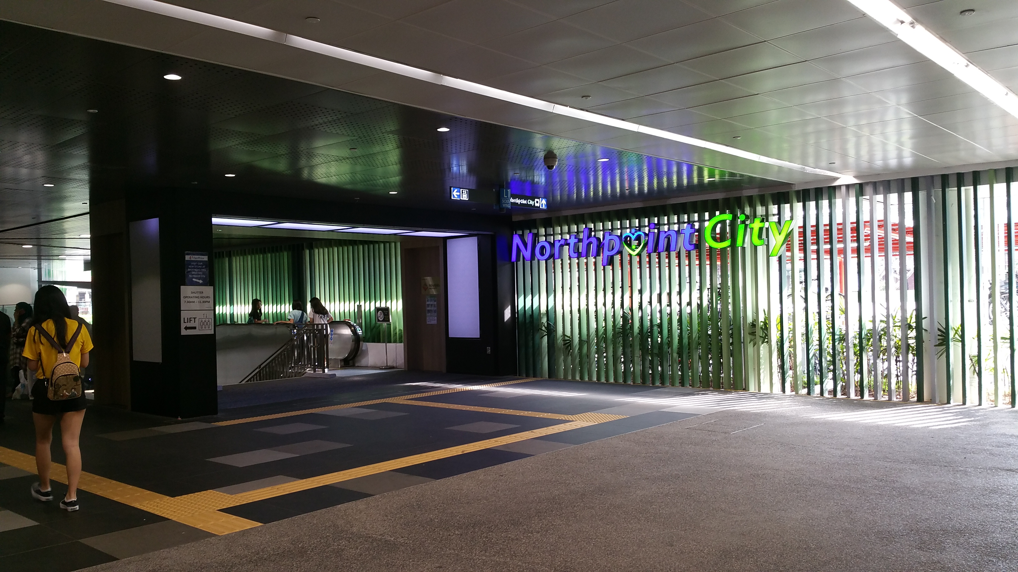 Entrance towards South Wing through Northpoint Link